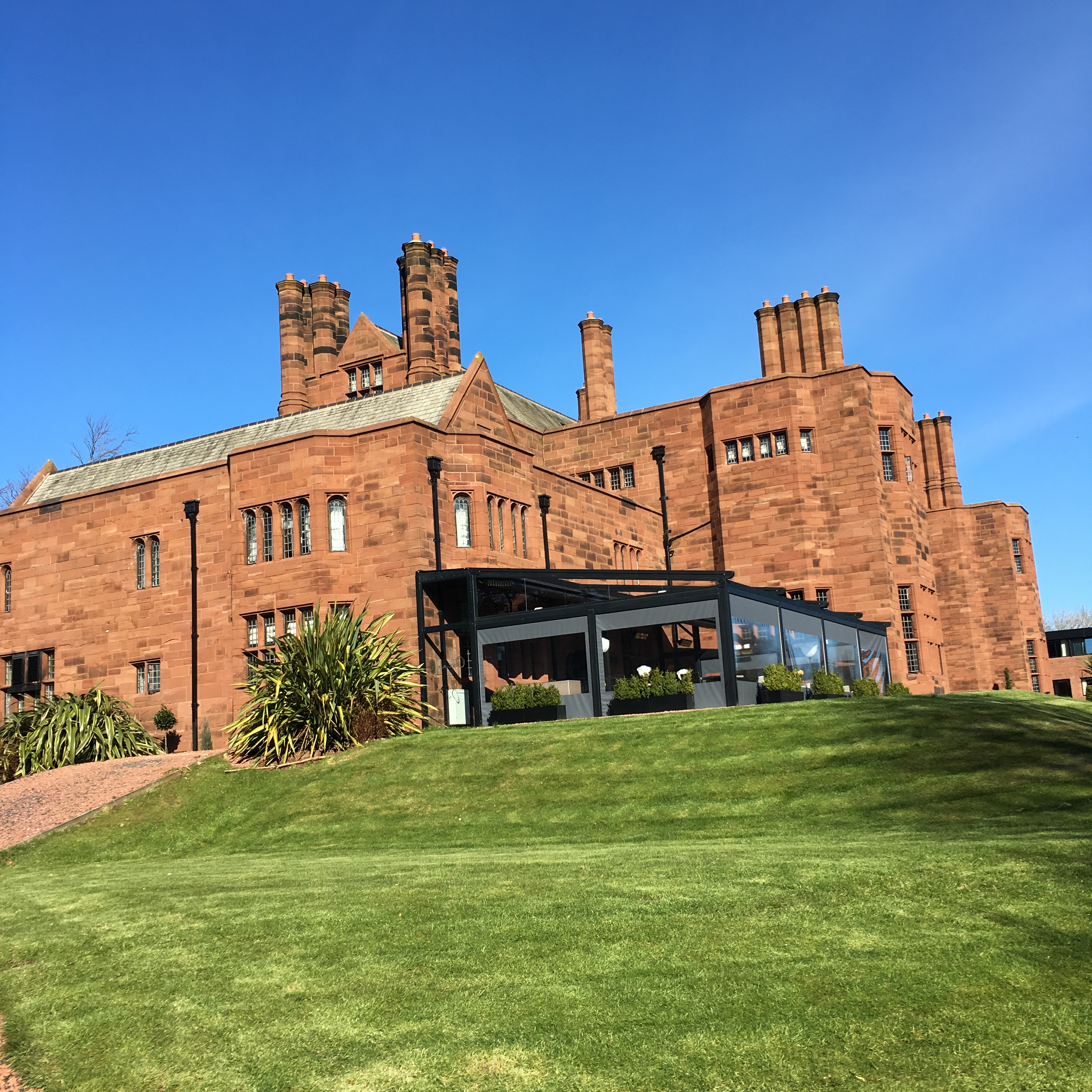 Grade II* listed Abbey House, Barrow-in-Furness designed by Edwin Lutyens, now a hotel